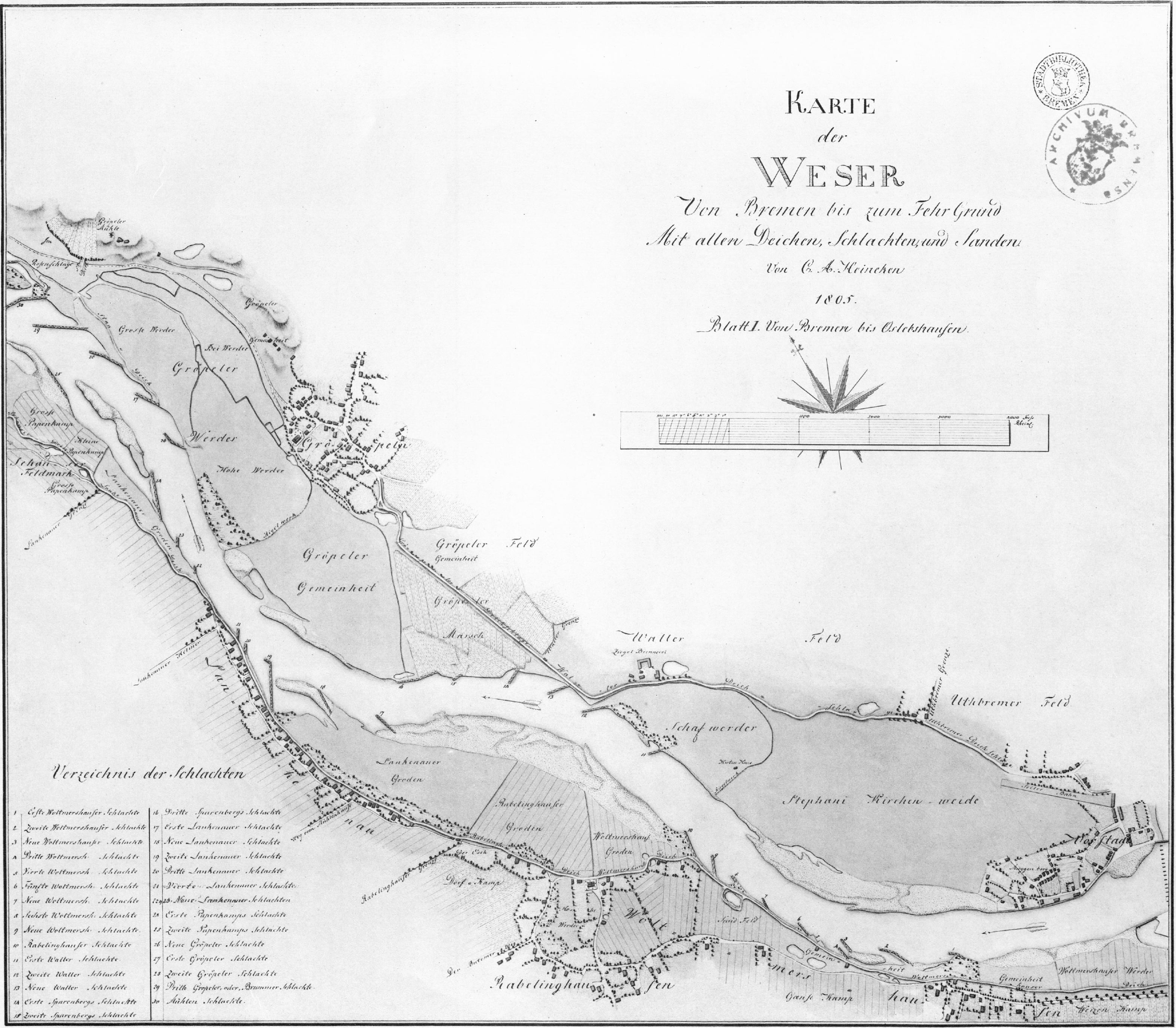 Translation of the original title: "Map of the Weser from Bremen to the Fehr Grund with all dikes, quais and sands (small islands) by C. A. Heineken in 1805, sheet I from Bremen to Oslebshausen